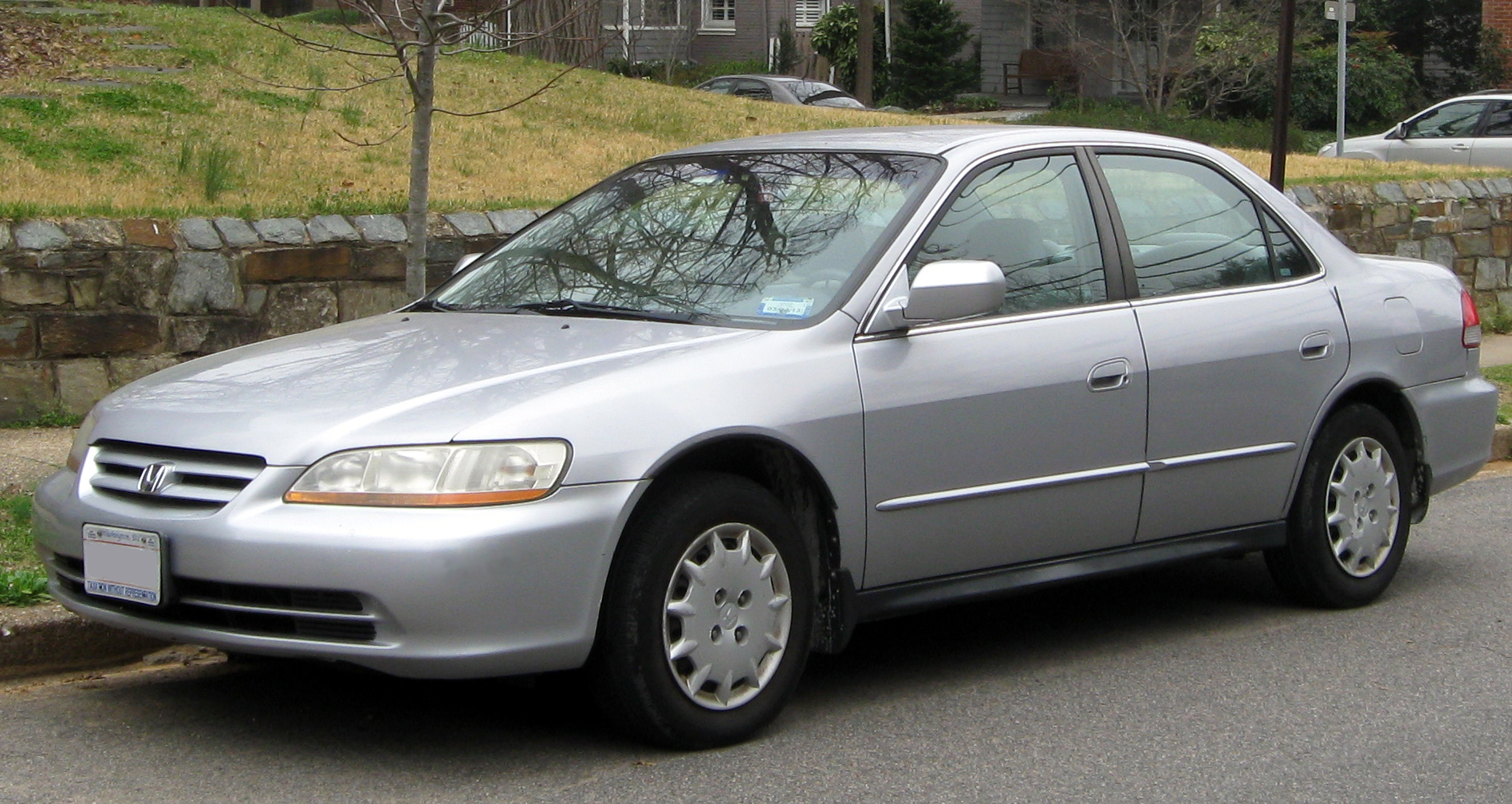 2001-2002 Honda Accord photographed in Washington, D.C., USA.